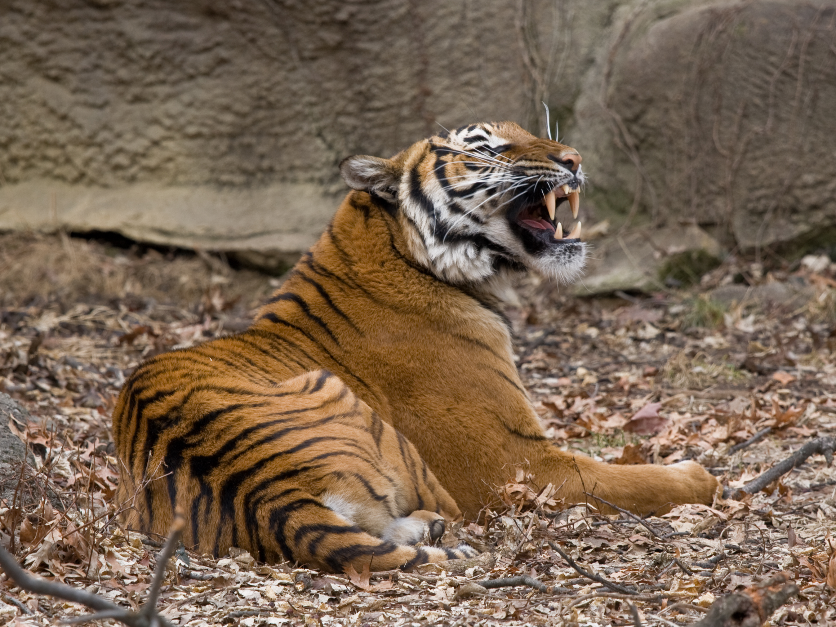 Malayan tiger at the Cincinnati Zoo. Photo by Greg Hume